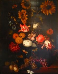 Still-life